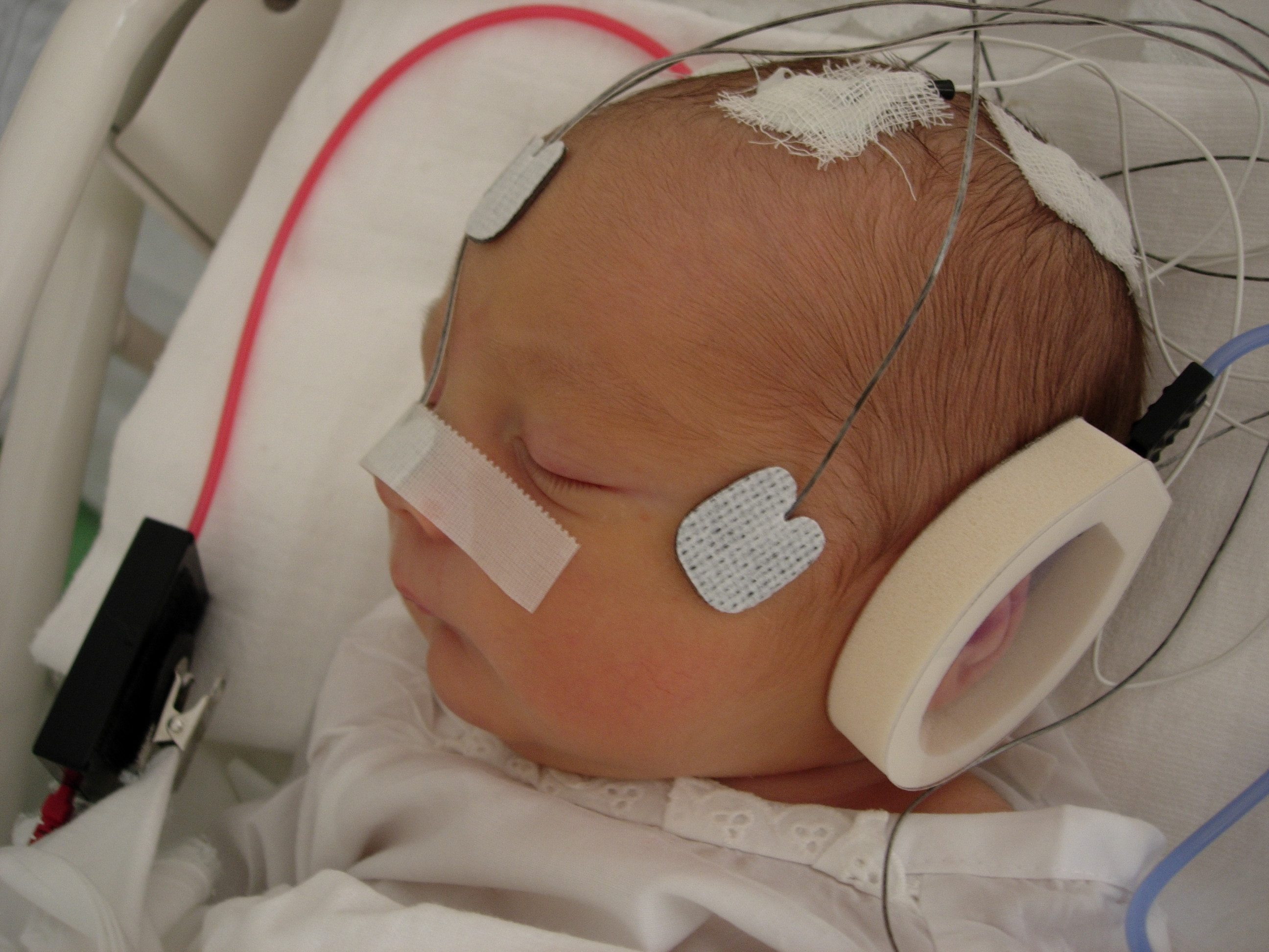 Newborn infants detect the beat in music